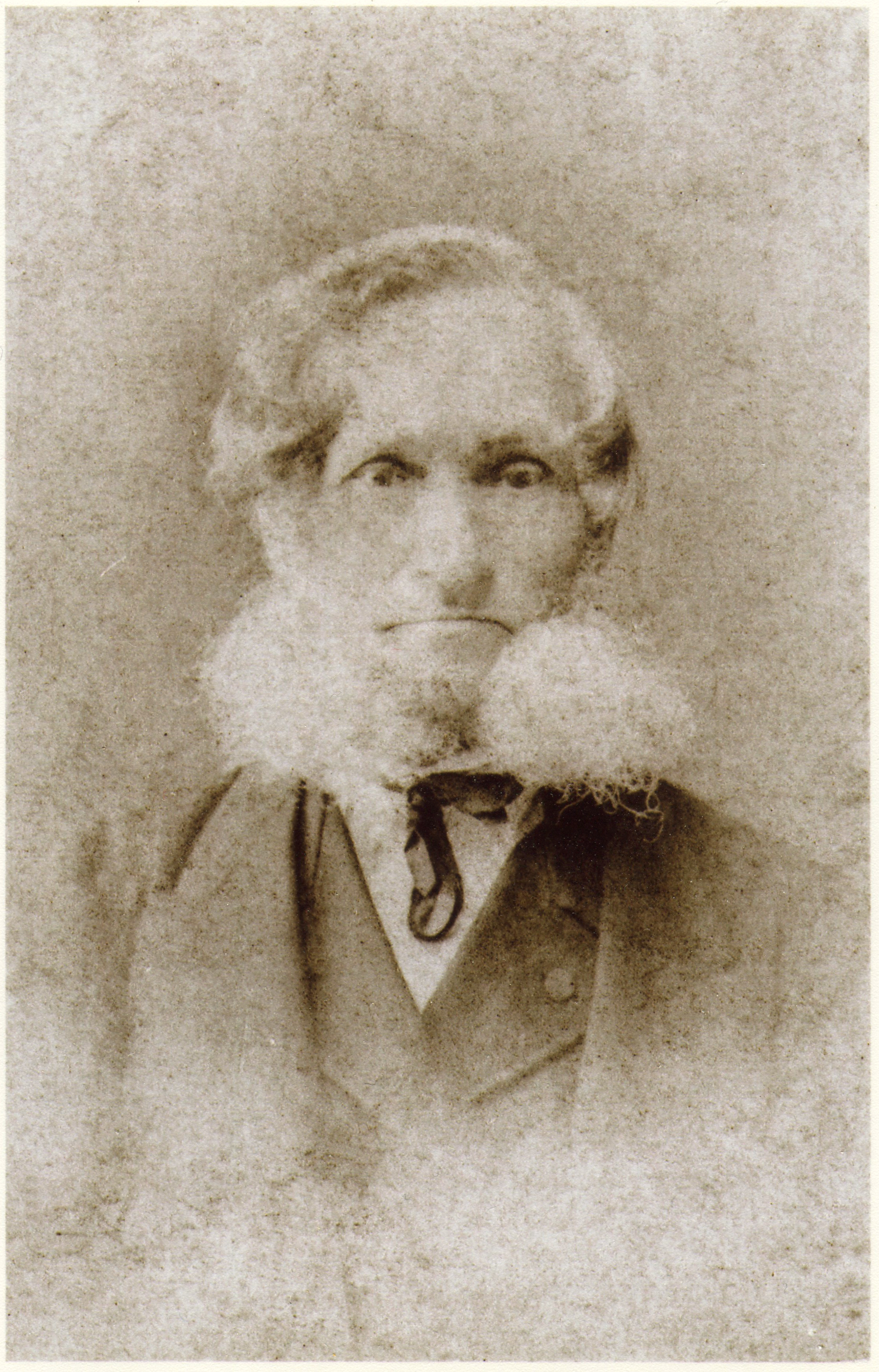 Nikolai Vasilyevich Varadinov - Russian lawyer; Doctor of Law, Doctor of Philosophy